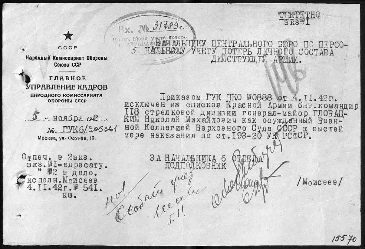 Glovatskiy Nikolay